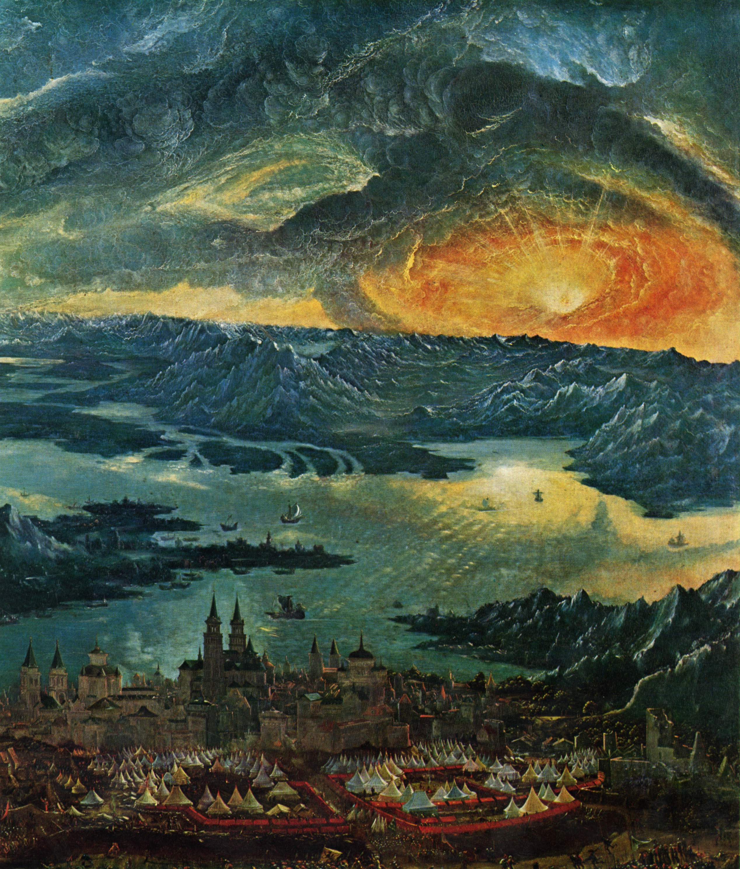 Battle of Alexander the Great against Persian King Darius